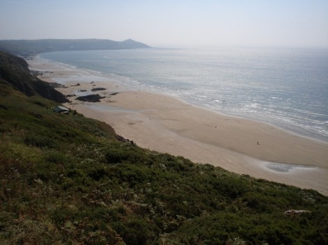 Withnoe or Main Beach portion of Whitsand Bay facing East with Rame Head in the background. Photo taken by myself September 2005 Awgynn 22:52, 9 August 2006 (UTC)